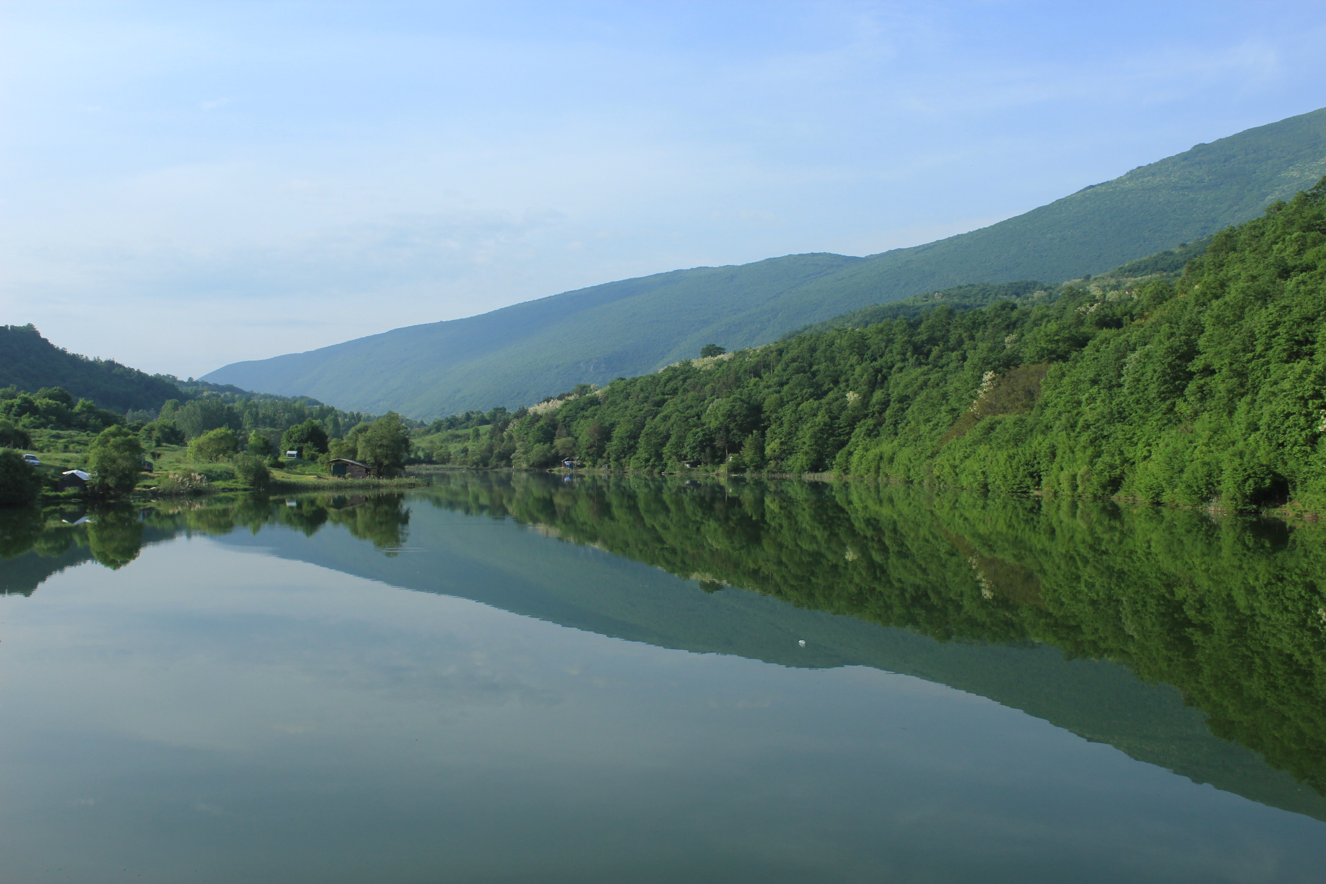 Divljan lake Srpski (latinica): Veštačka akumulacija u podnožju Suve planine, između sela Divljane i Mokre.